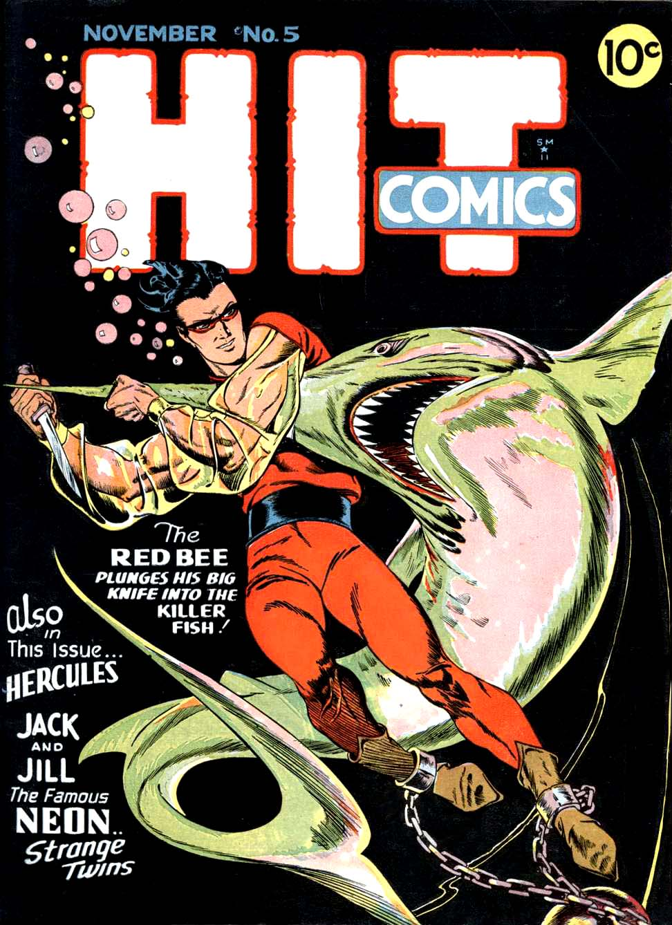 The Red Bee battles for his life against the malevolent sword fish! Exceptional Lou Fine artwork from the cover of Hit Comics number 5 (Quality, November, 1940).